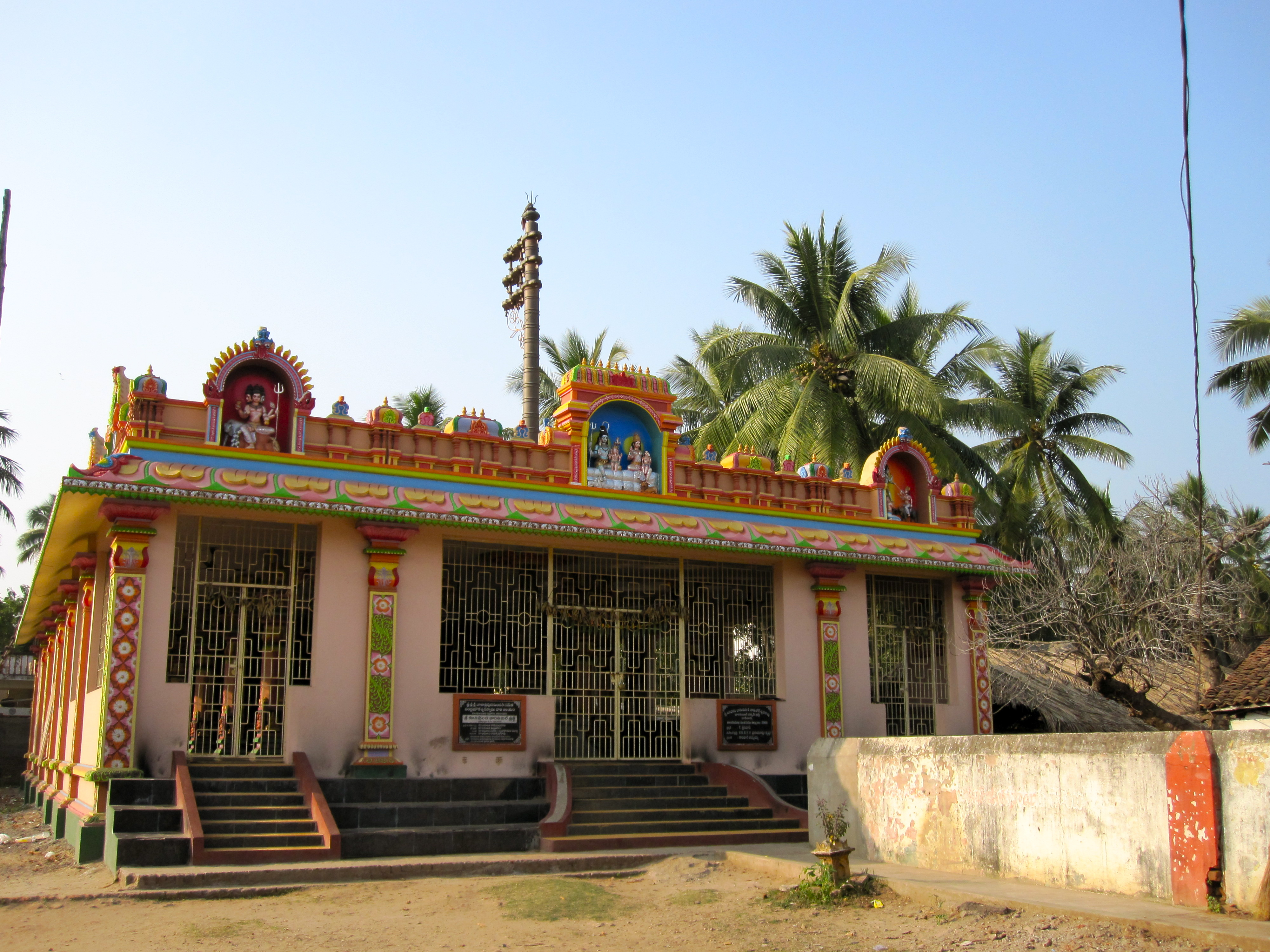 A Hindu temple in Amalapuram, East Godavari District, Andhra Pradesh, India